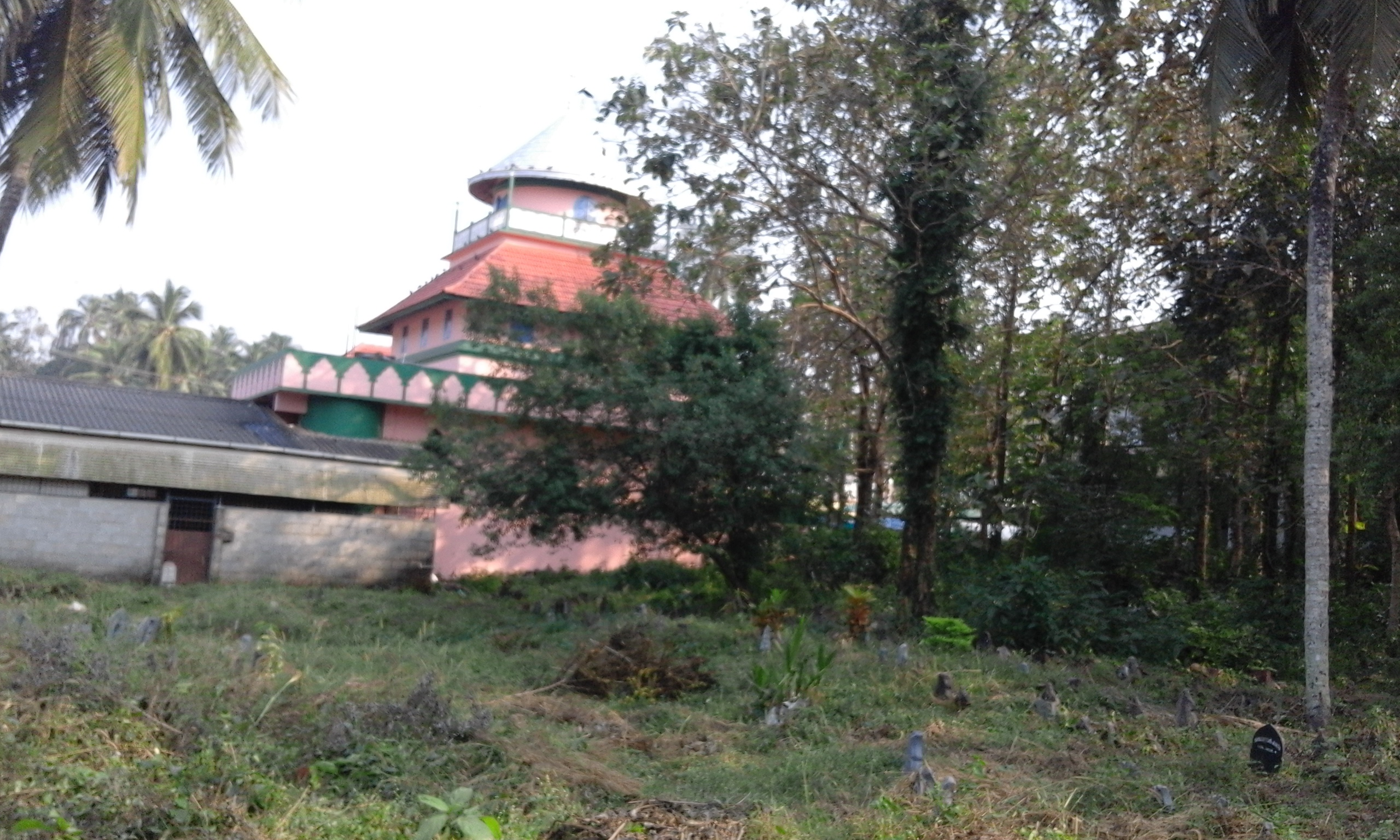 Tirurangadi, Malappuram District Kerala, India